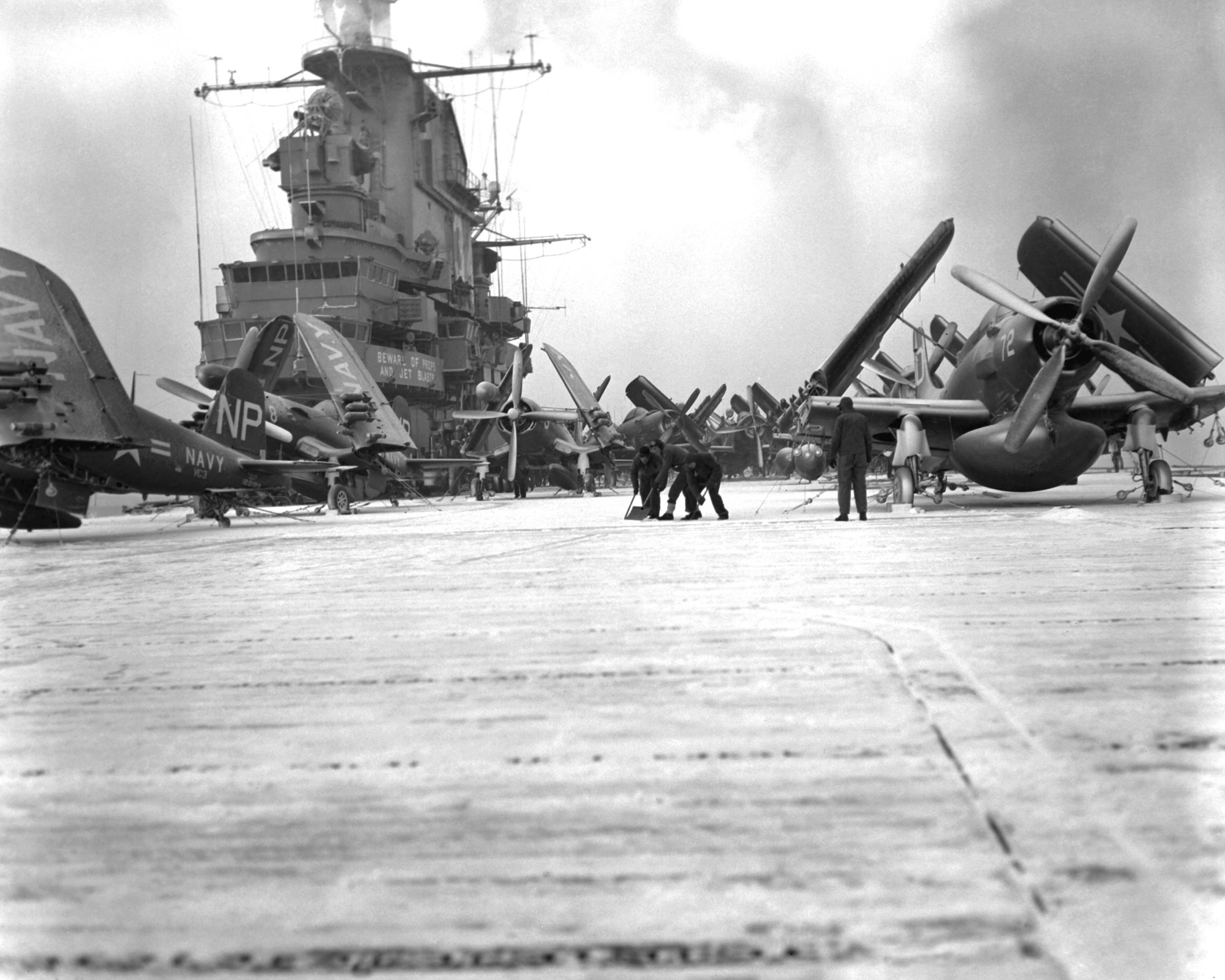 Snow and ice are being cleaned from the flight deck of the U.S. aircraft carrier USS Oriskany (CVA-34) after a snow storm during operation off the Korean coast on 10 January 1953. On the starboard side are three Vought F4U-5N Corsair fighters of composite squadron VC-3 Det.G Blue Nemesis. On the port side sits a Douglas AD-3W Skyraider of VC-11 Det.G.